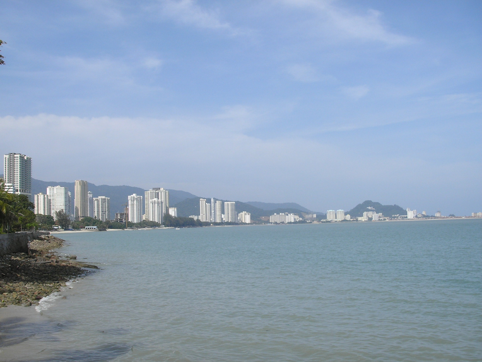 View of Gurney Drive and the Tanjung Tokong coast in the northeast of Penang Island.